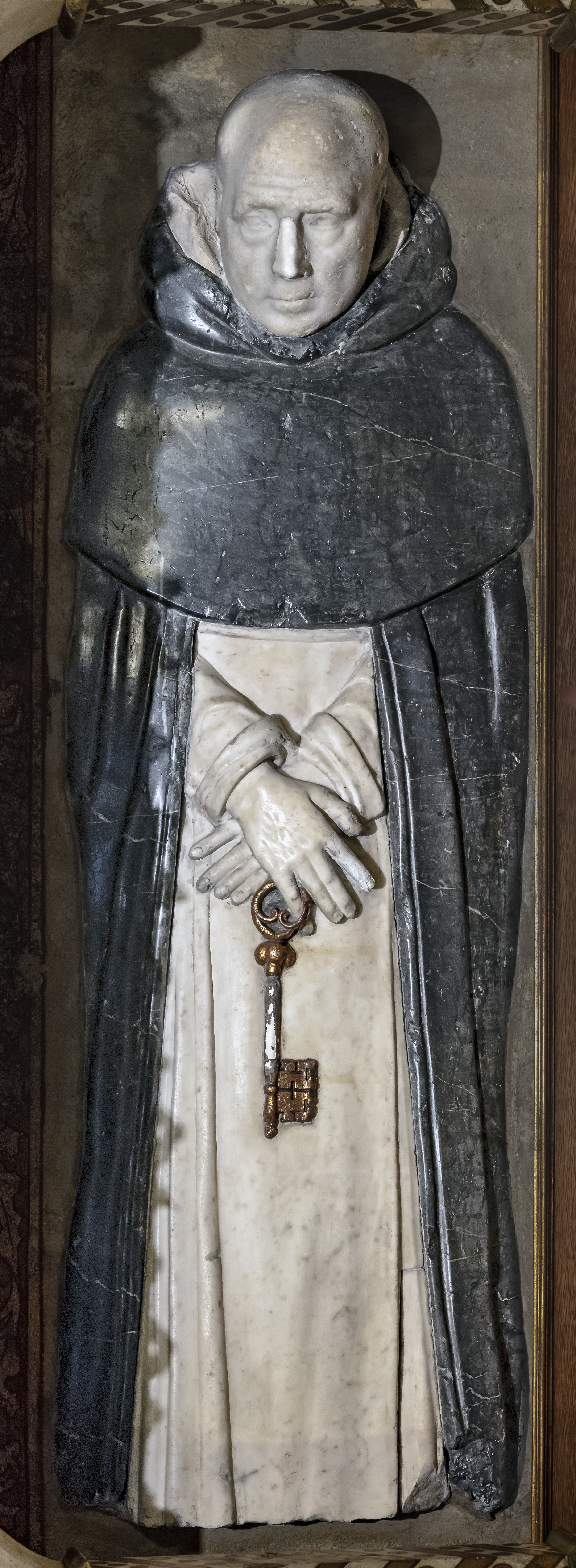 The Cathedral of the Holy Cross and Saint Eulalia in Barcelona. Chapel of Raymond of Penyafort - Tomb of Raymond of Penyafort.